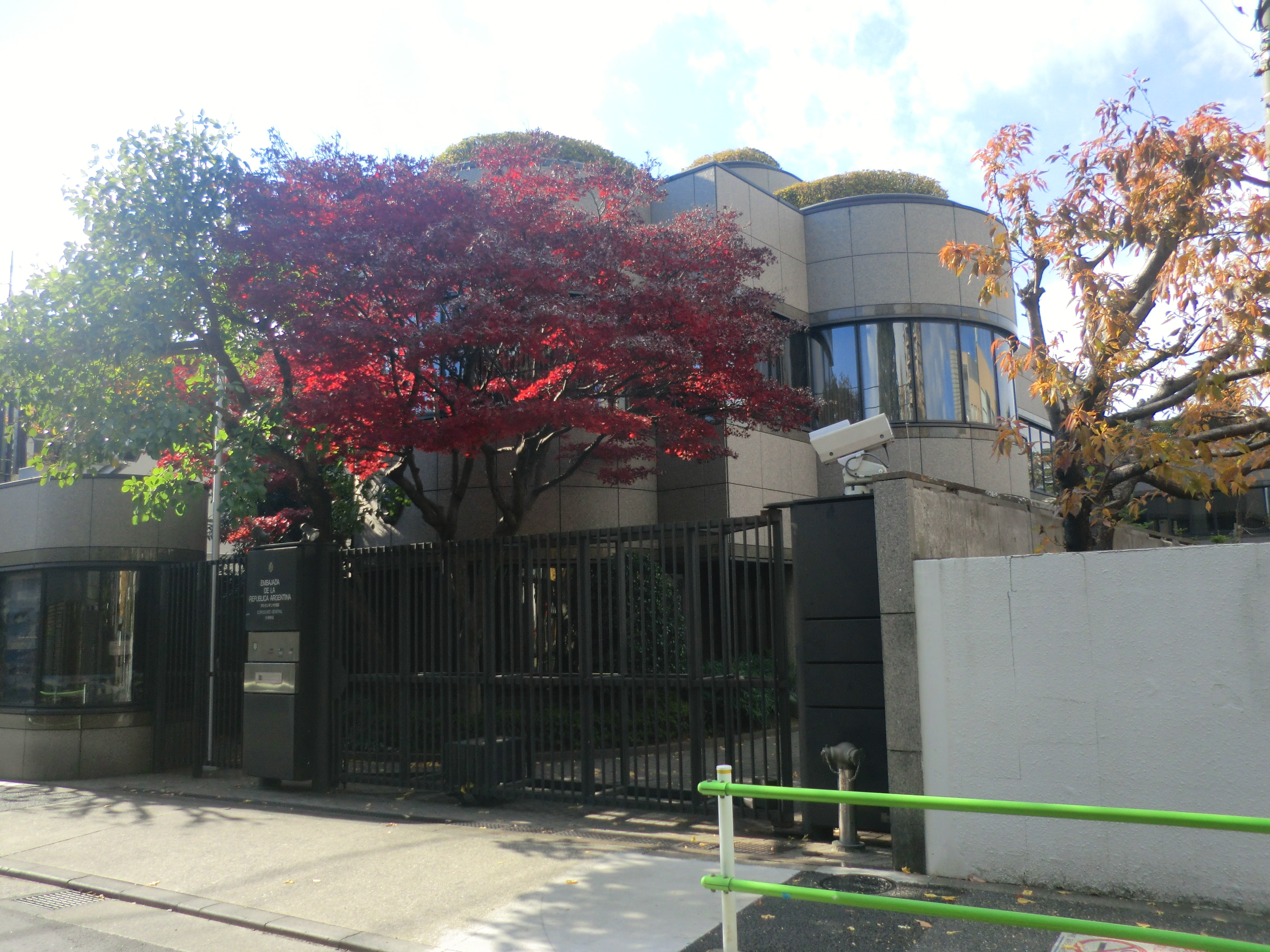 Embassy of Argentina in Japan located in Moto-azabu,Minato ward,Tokyo.